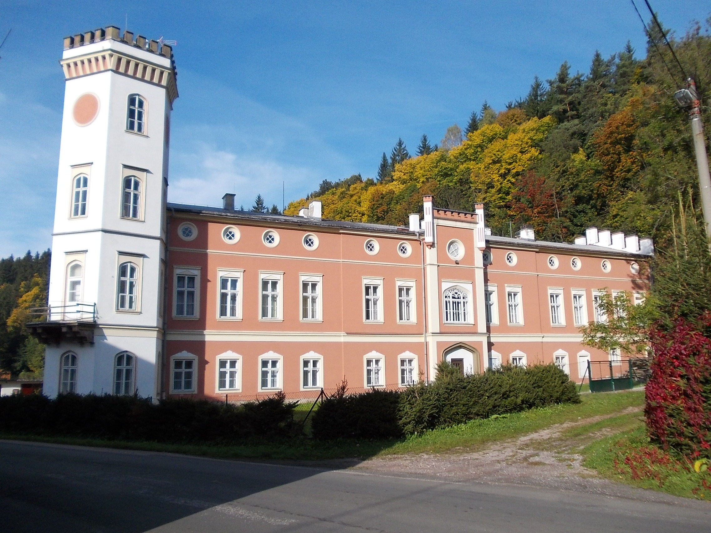 neogothical chateau in Rudník, Trutnov district